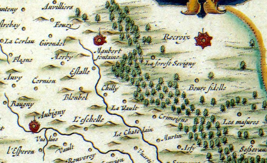 A map of the French episcopate Reims and the region Rethel was published by Willem Jansz. Blaeu (1571-1638) and Joan Blaeu (1598-1673). The map was composed using two detailed maps by the French cartographer Jean Jubrien, which were published earlier by Henricus Hondius II (1597-1651) and Melchior Tavernier . The extent of the two original maps is clearly visible in the density of details on Blaeus map.